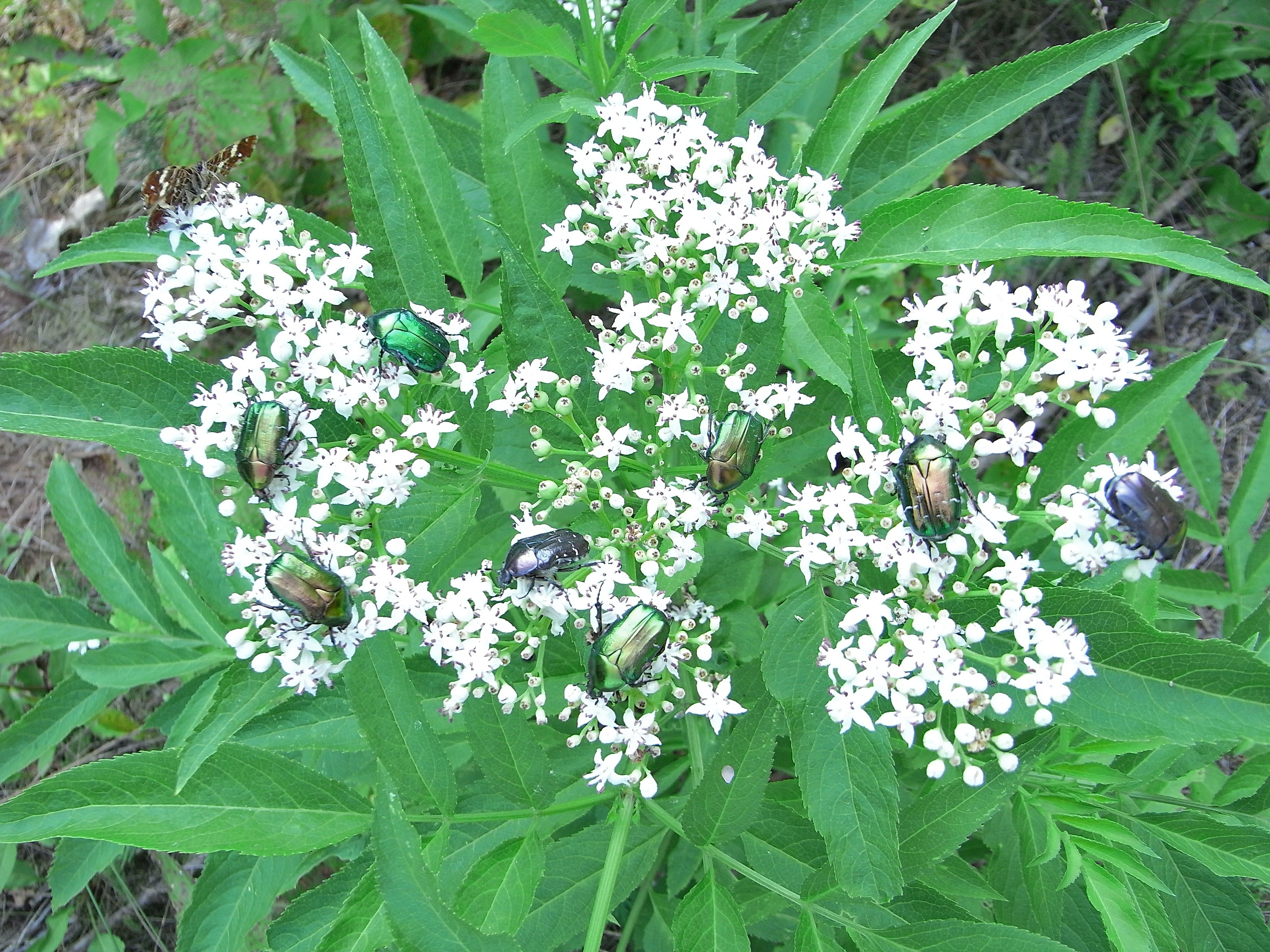 Sambucus ebulus visited by Cetonia (and one butterfly). Hungary, border to Northern Bakony-mountains at 2010-07-13Ricoh R8